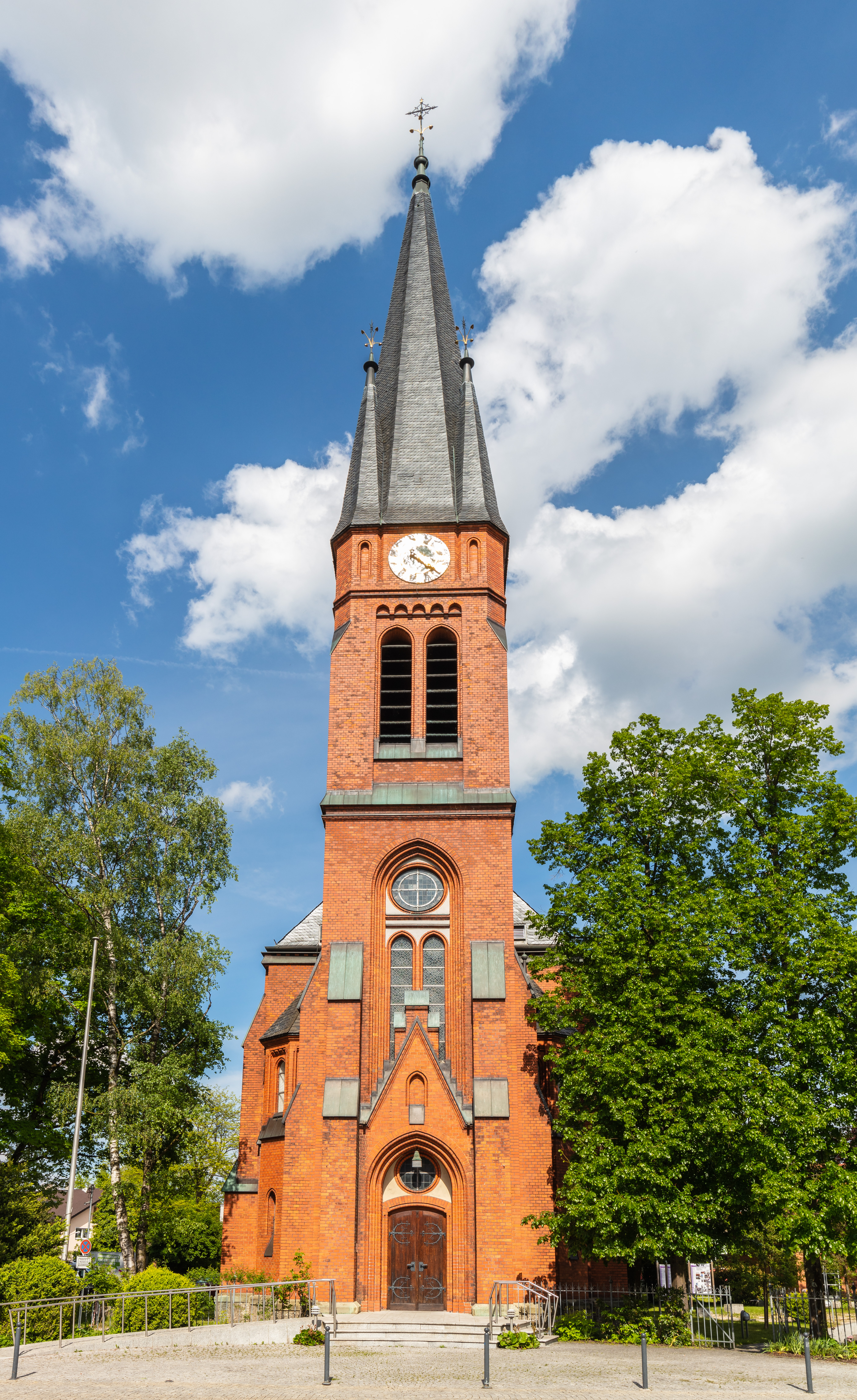 Redeemer church, Rosenheim, Germany